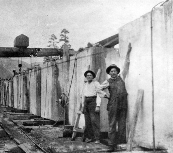 Yule marble blocks for columns to make column sections (aka drums) for the Lincoln Memorial. Each block is 8foot 4inch x 8foot 4 inch x 4foot x 6inch weighing 26.25 tons, at 170 pounds per cubic foot. Man on left is Henry Johnson, photographer for the Colorado Yule Marble Company